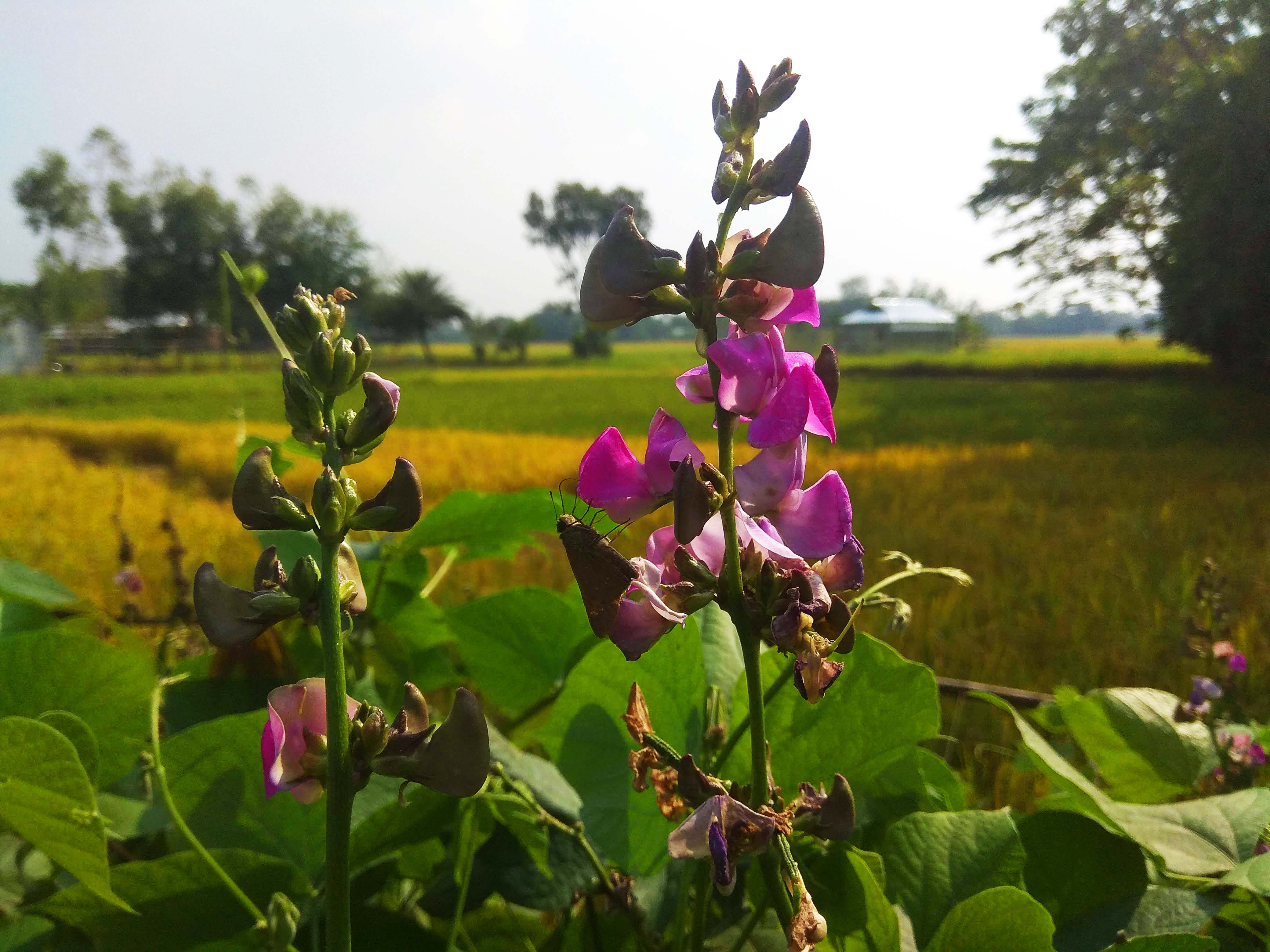 Bean flower in Jamalpur, Mymensingh, Bangladesh